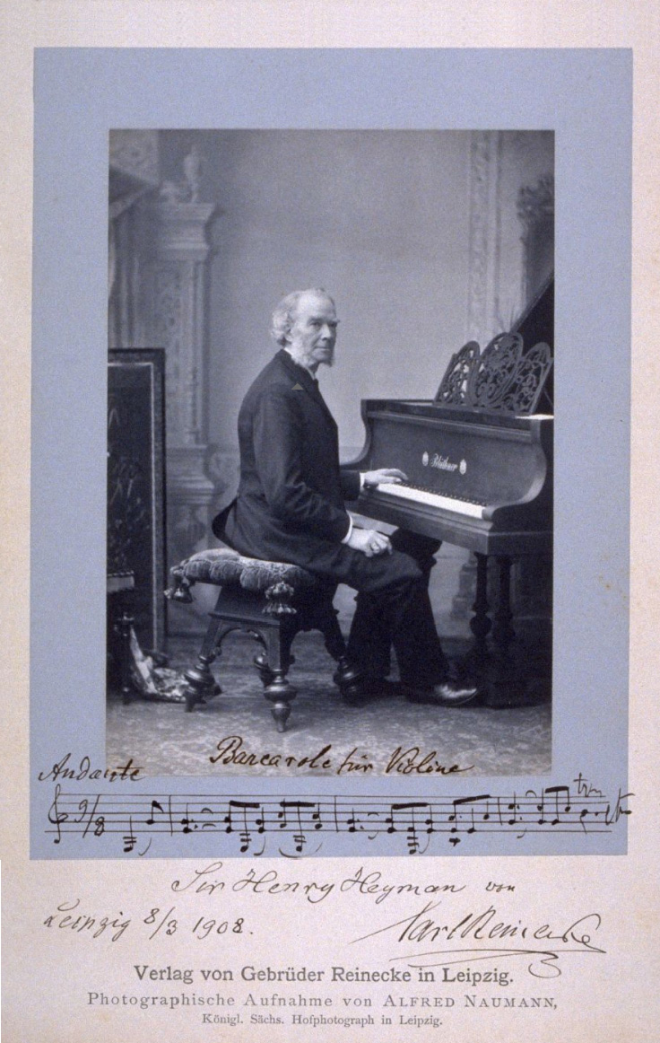 German composer and pianist Carl Reinecke (1824—1910) portrayed in 1893; with his autograph of 1908.